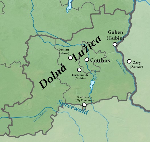 Dolná Lužica